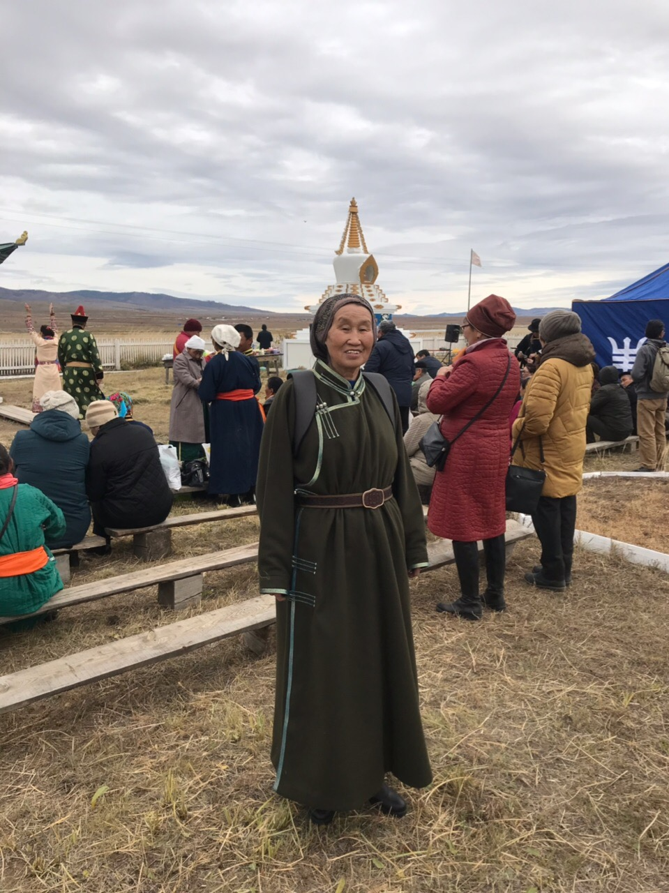 Barga Woman in Buryatia